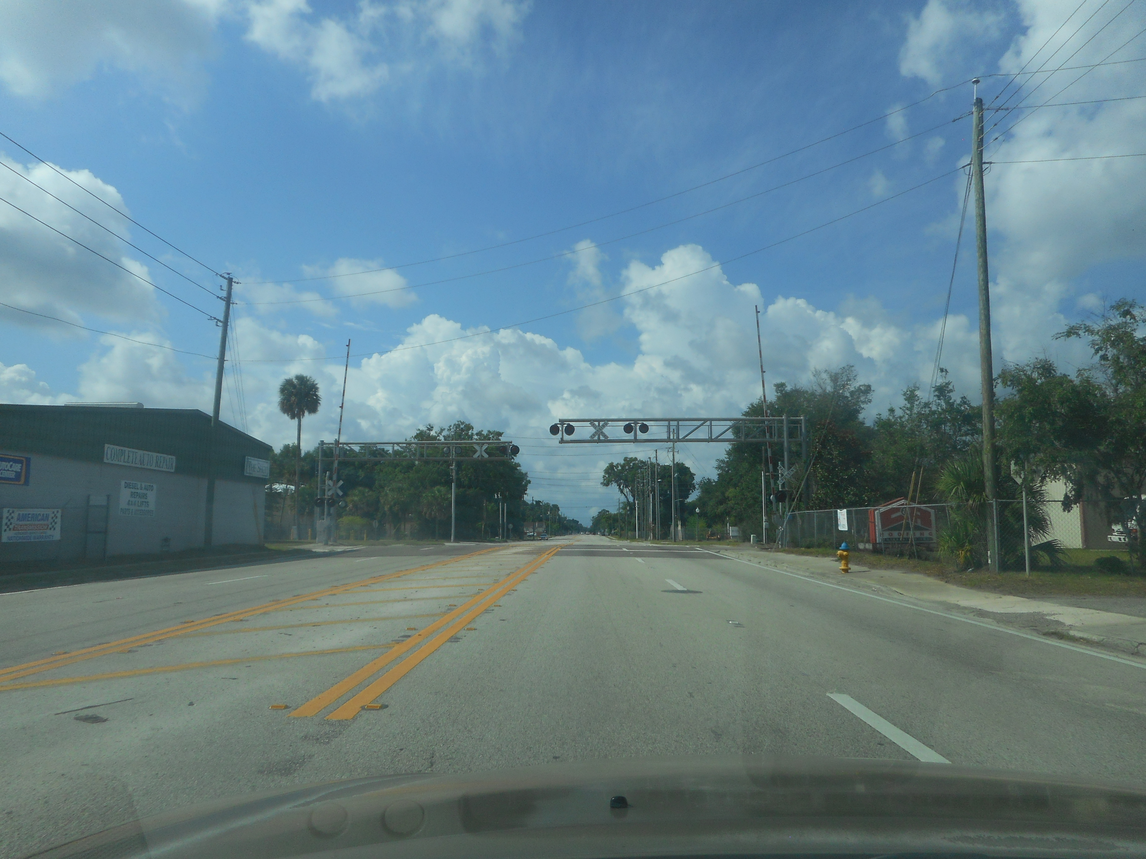 Southbound Florida State Road 15A as it approaches the railroad crossing for the CSX DeLand Spur between Minnesota and Wisconsin Avenues in DeLand, Florida. The DeLand Spur was originally built by the Orange Ridge, DeLand and Atlantic Railroad Company, running from the current DeLand Amtrak station to downtown DeLand.